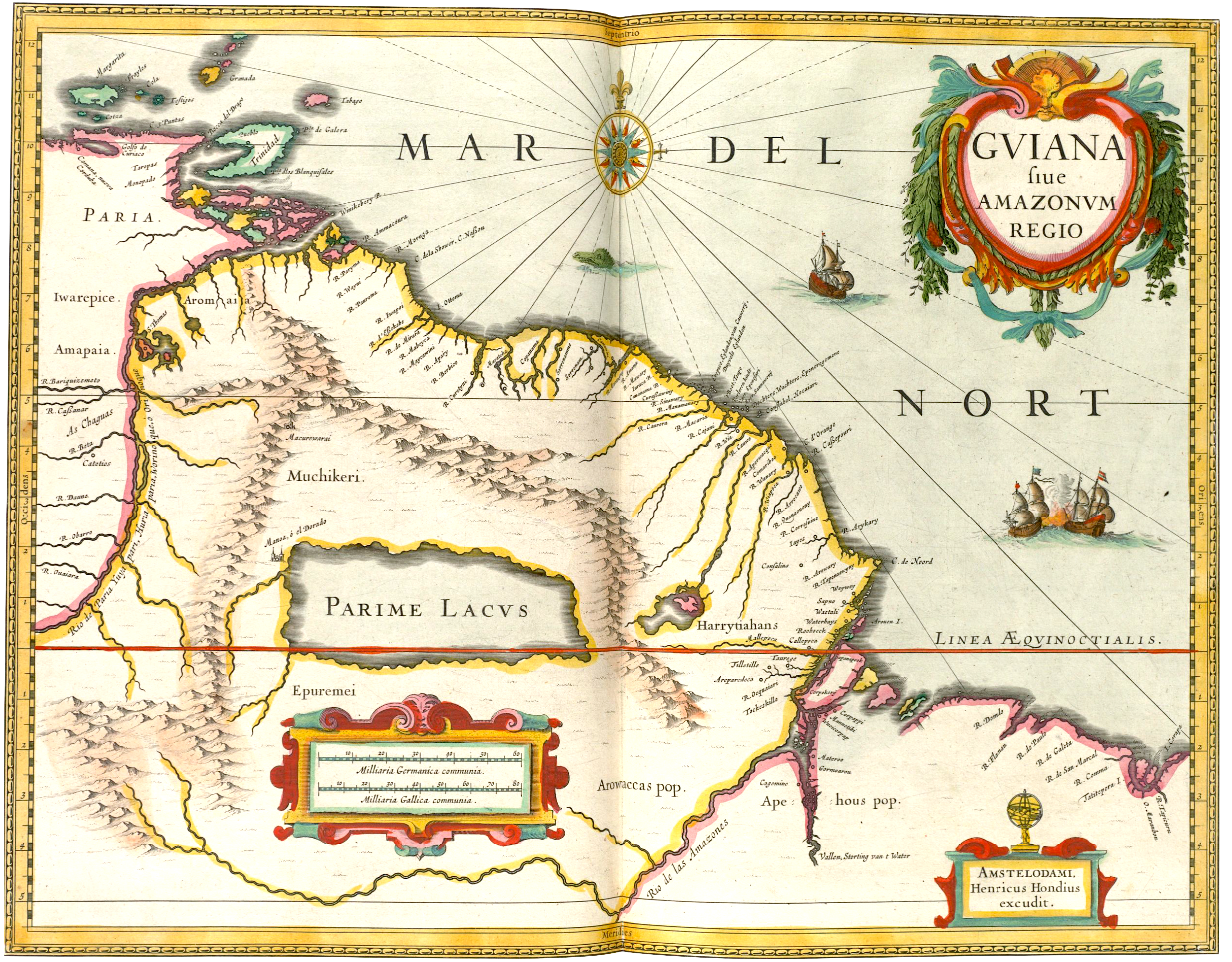 A 1638 map of Dutch Guiana (in yellow)